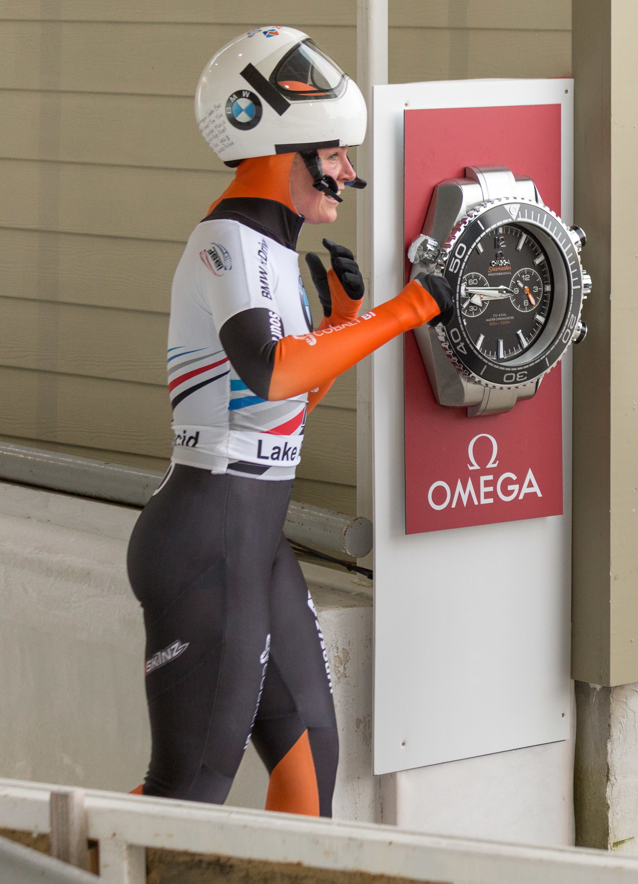 Kimberley Bos (NED) is seen in the finish area after her first run in the IBSF Skeleton World Cup race in Lake Placid.